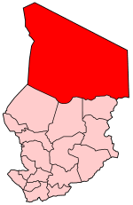 Map of Chad showing Bourkou-Ennedi-Tibesti region.